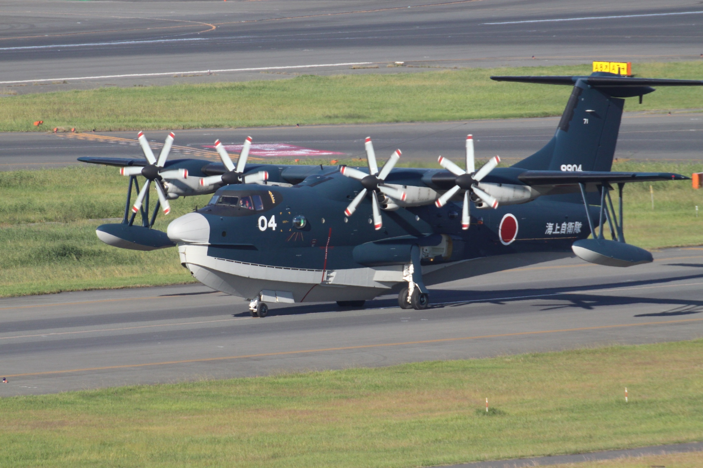 At Tokyo Haneda International